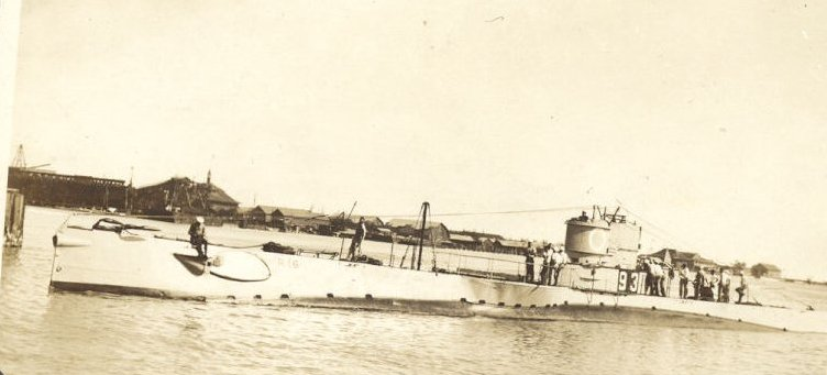 United States Navy submarine returning to Pearl Harbor, Hawaii